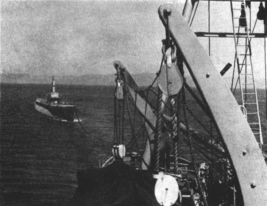 the U.S. Navy fleet tug USS Takelma (ATF-113) with the submarine USS Dragonet (SS-293) on tow astern, departs San Francisco harbour, California (USA) bound for Norfolk, Virginia, circa in 1961. Dragonet had been decommissioned and placed in reserve at the Mare Island Naval Shipyard on 16 April 1946, and laid up in the Pacific Reserve Fleet. She was struck from the Naval Register on 1 June 1961, and scuttled in Chesapeake Bay after explosives tests on 17 September 1961.